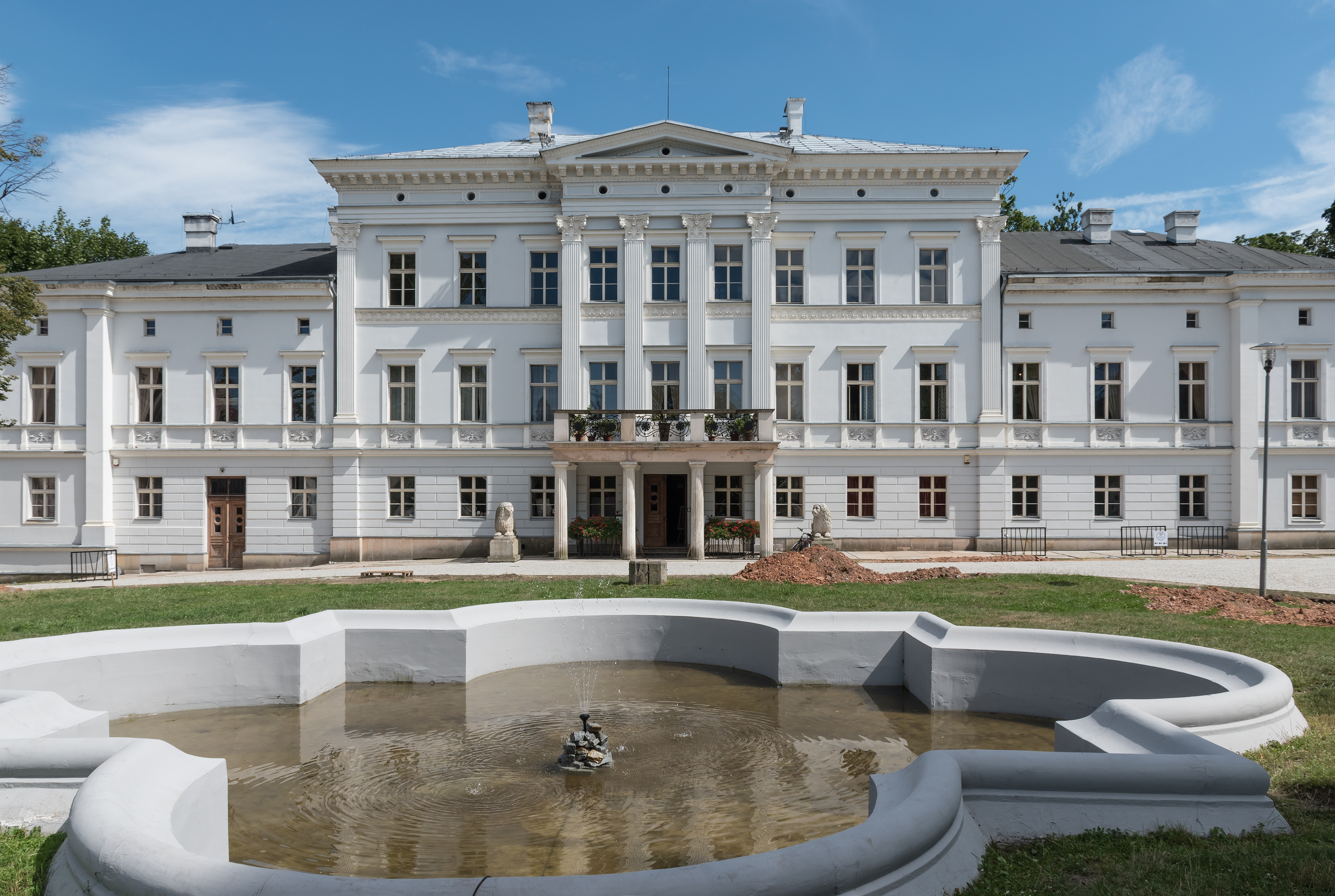 Palace in Jedlinka Wikidata has entry Q30082294 with data related to this item.